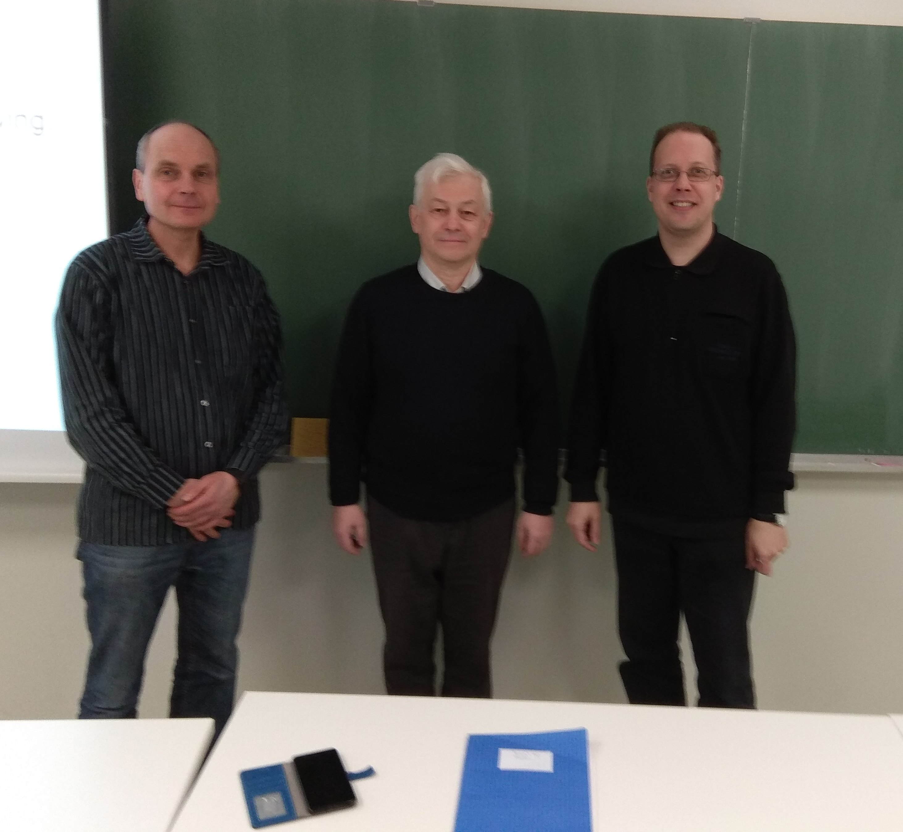 From left to right: Professor of University of Turku Jarkko Kari, Professor Alexander Kirillov from the Institute of Applied Mathematical Research of the Karelian Research Centre of RAS and Professor of University of Turku Tero Laihonen, 2019. Alexander Kirillov was invited to University of Turku to read the course for students "Poincaré’s last geometric theorem: generalizations and applications".